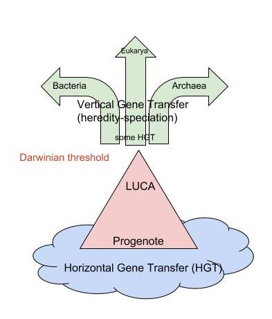 Very simple cells that exchange genetic material by means of horizontal or lateral gene transfer, pass the Darwinian threshold beyond which genetic transmission becomes vertical, the cells acquire true heredity and they form species